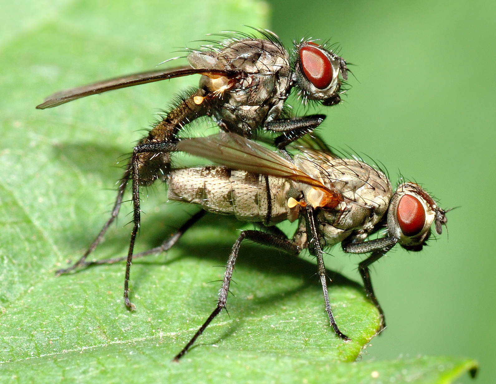 This image shows two 0.28 inch (7 mm) small flies of the family Anthomyiidae.